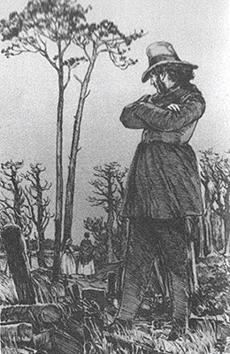 Illustration by Kardovsky for Turgenev novel «Rudin»